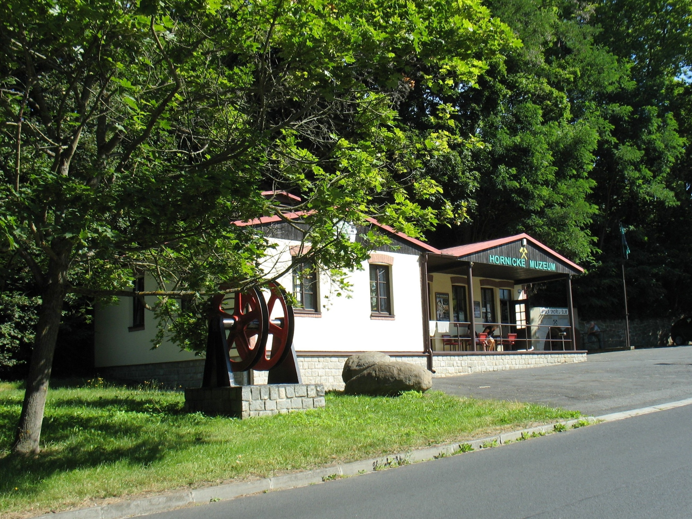 Mining museum in Planá, Tachov District, Czech Republic